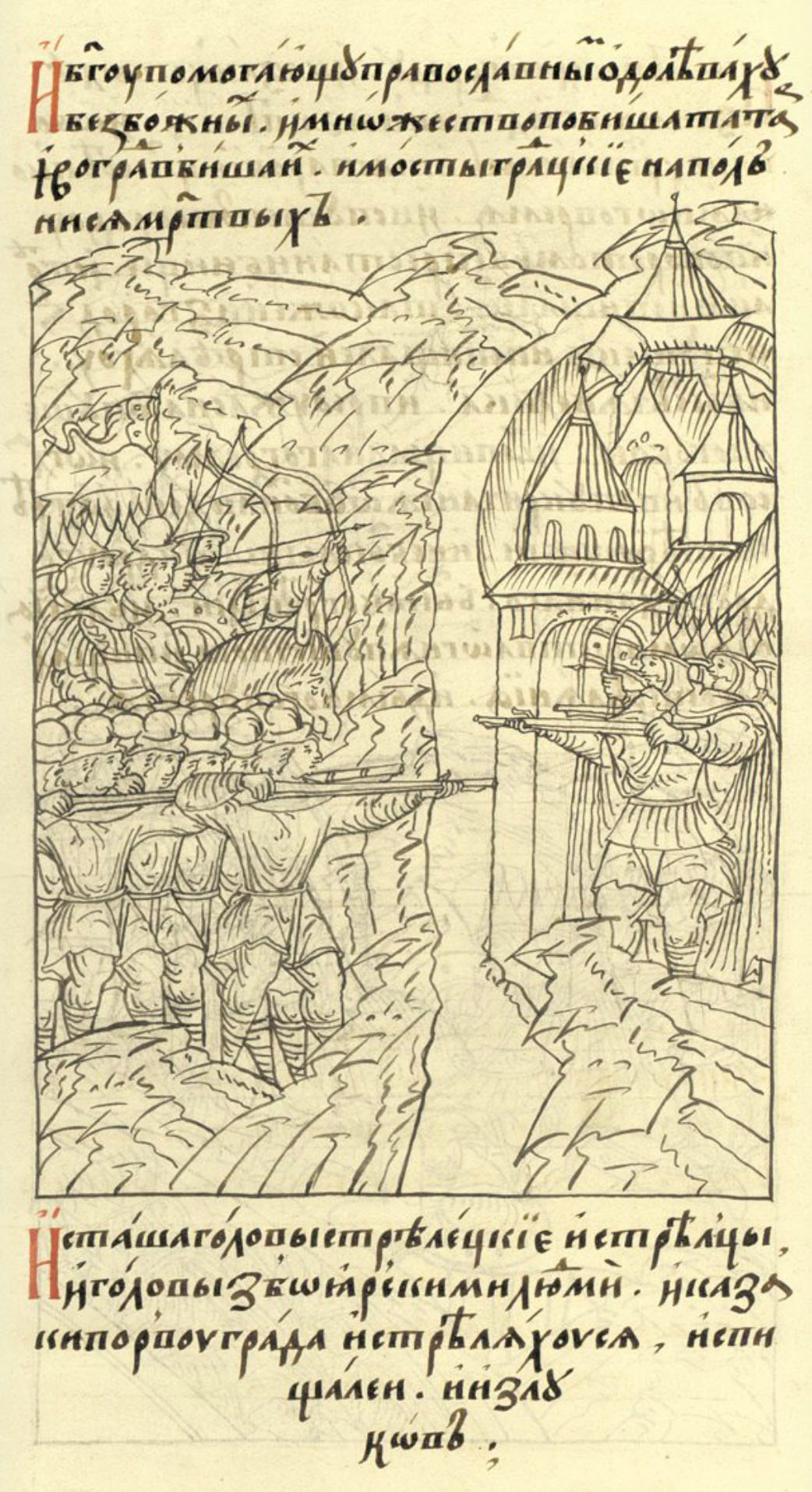 Illustrated Chronicle of Ivan the Terrible. 26 august, 1552. And God helped to orthodox Christians to overpower the infidels and many tatars were killed and robbed. And bridges of the town were full of corbses. And the Heads of streltsi and streltsi and the Heads with boyar people and Cossacks were standing on the town trenches and shooted from pishchals and bows.